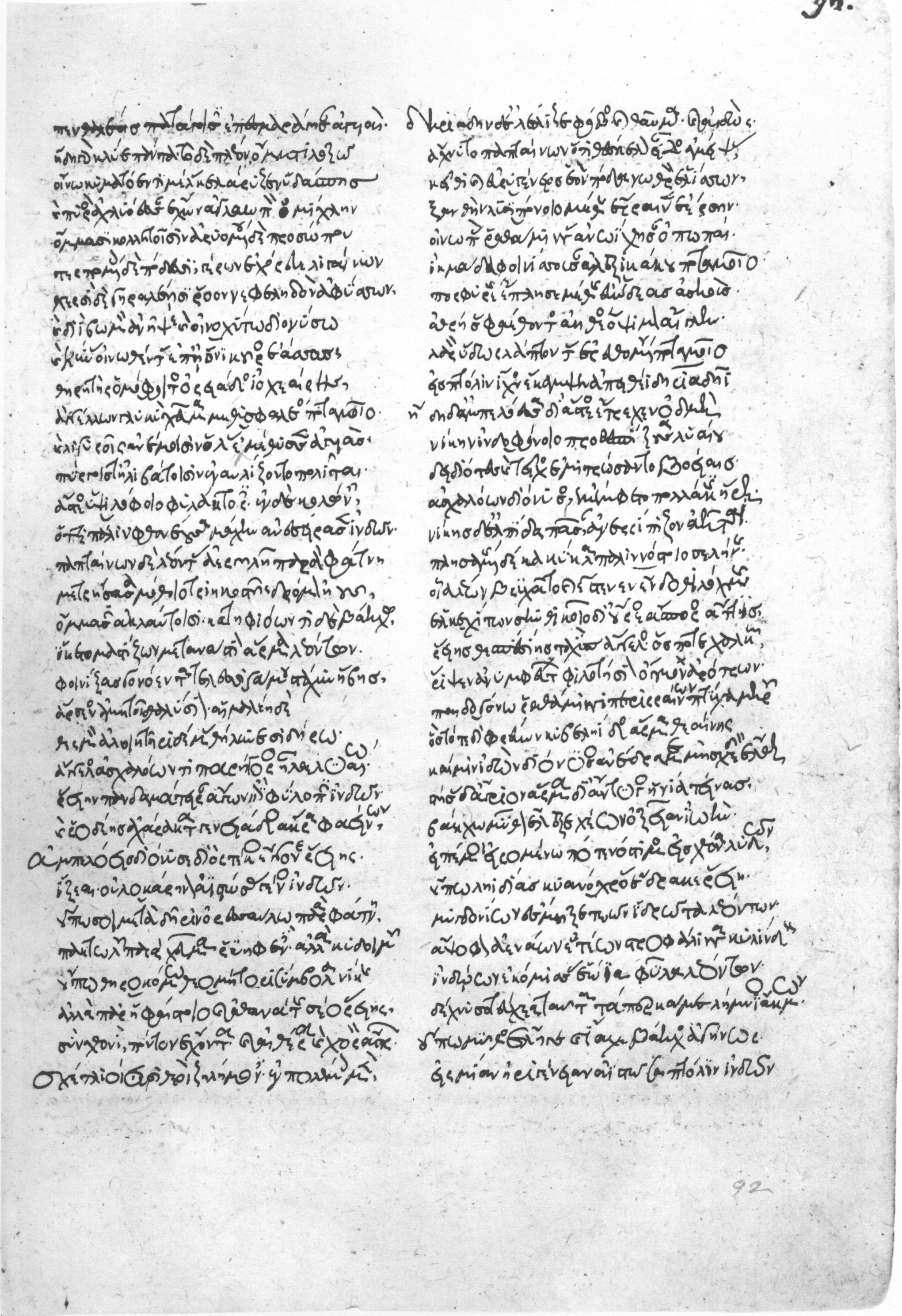 Nonnus, Dionysiaca, in ms. Florence, Biblioteca Medicea Laurenziana, Plut. 32,16, fol. 92r.